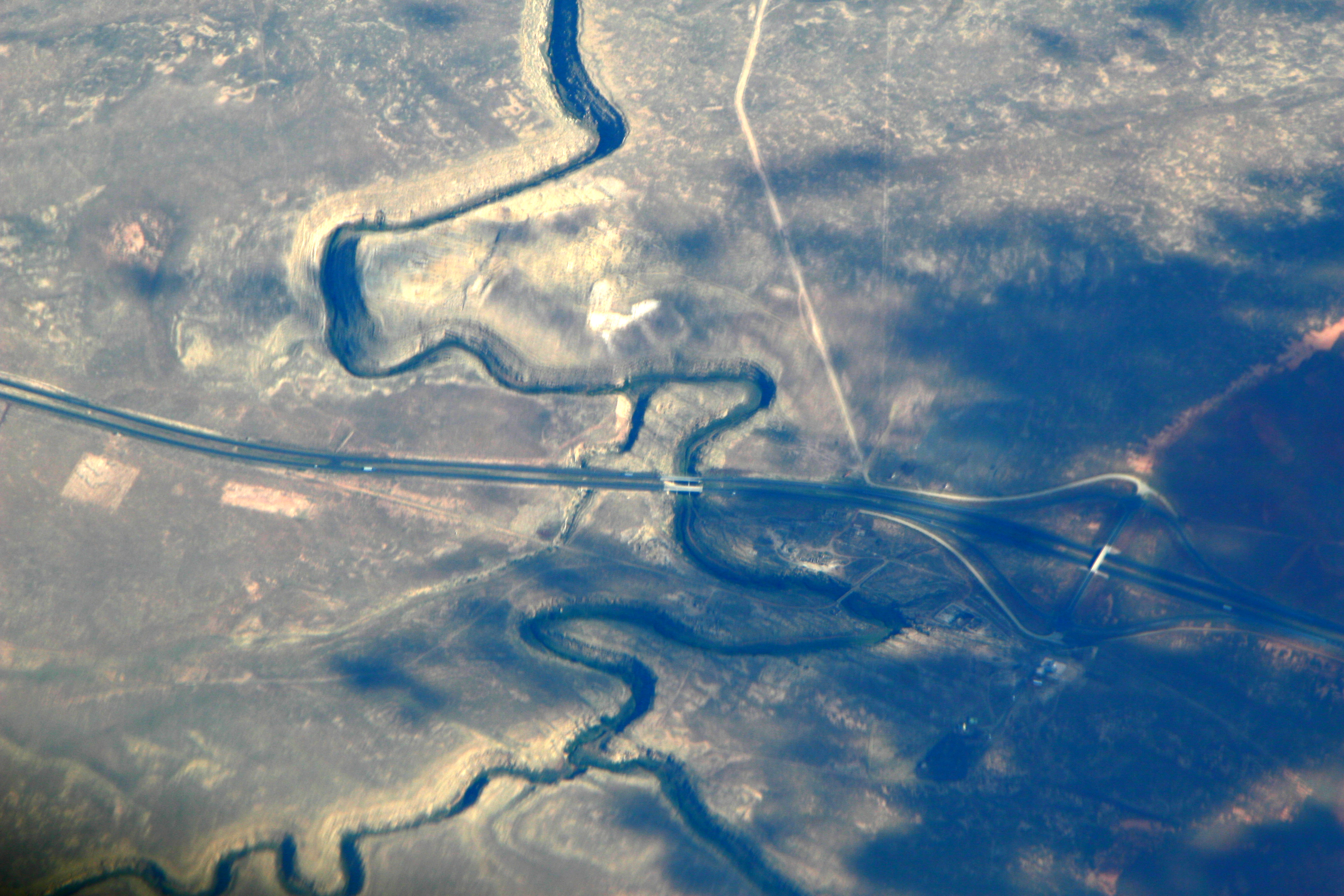 View of Canyon Diablo, Interstate 40, and Two Guns (ghost town), Arizona.